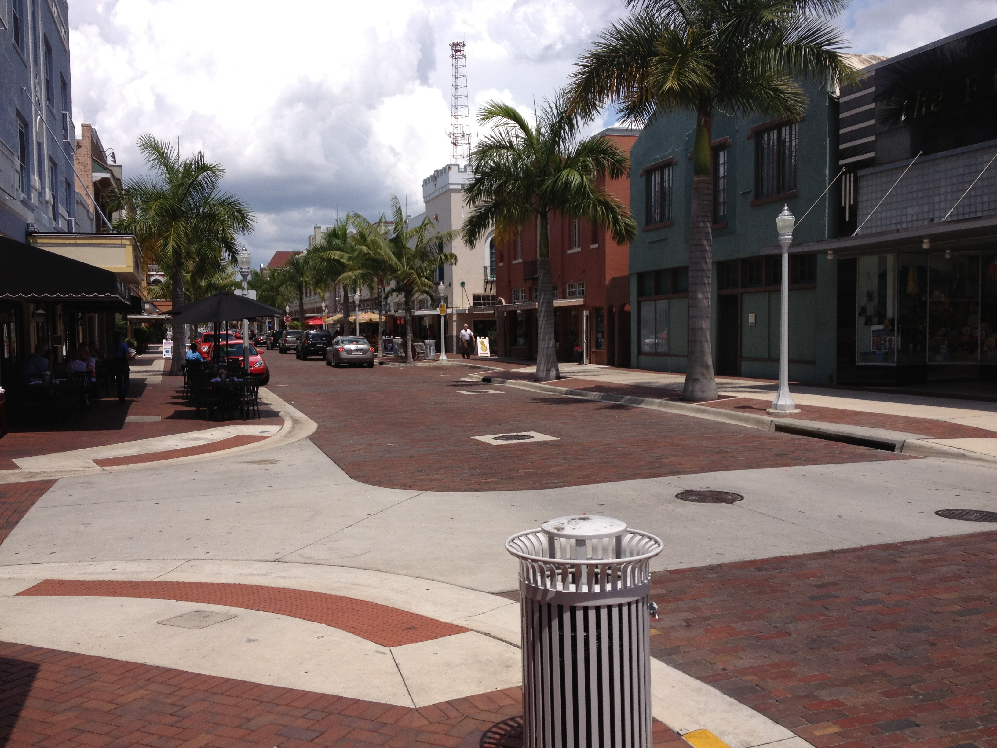 First Street through historic downtown Fort Myers